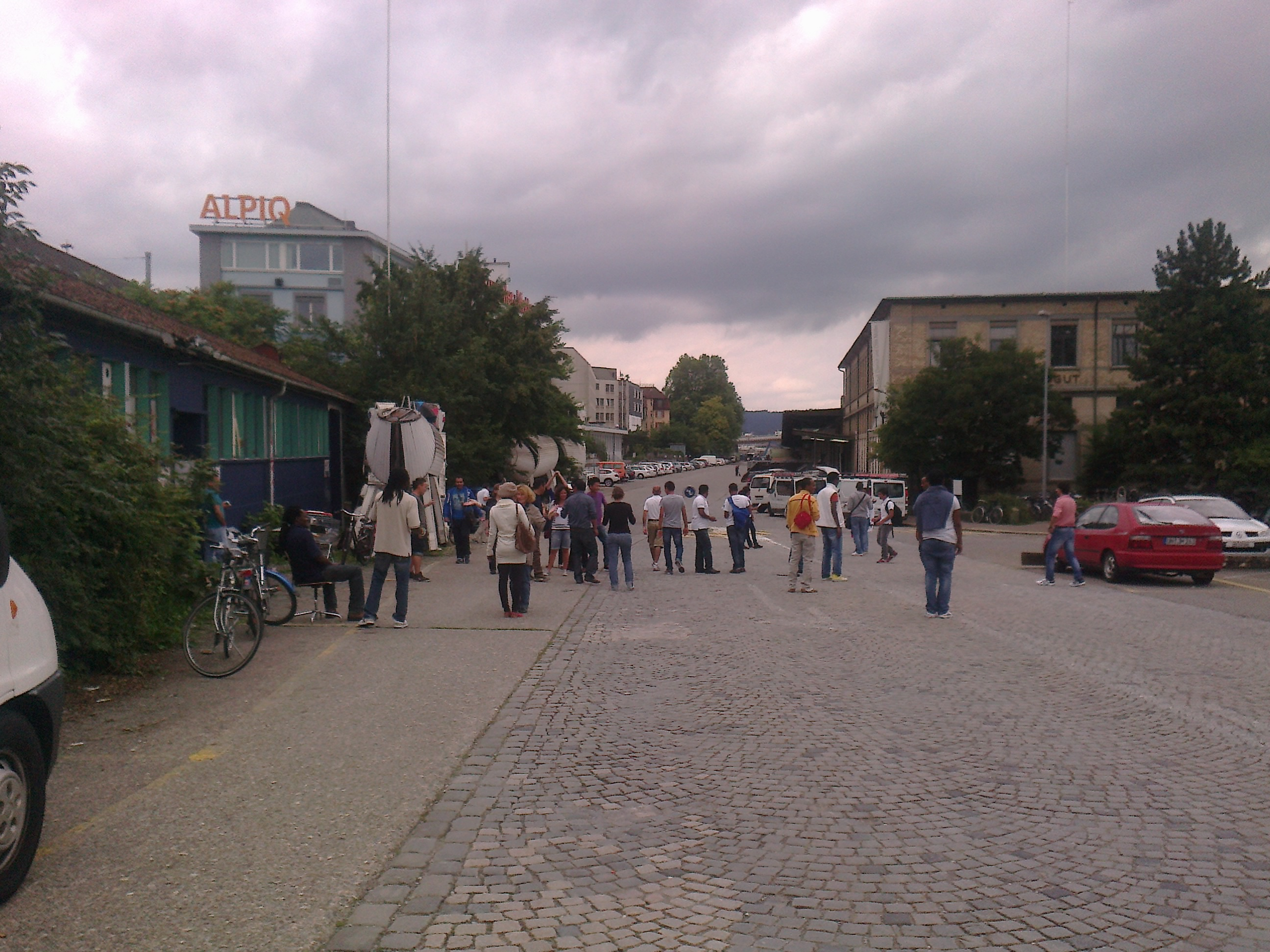 The Autonomous School Zurich at the Güterbahnhof area (July 2012)